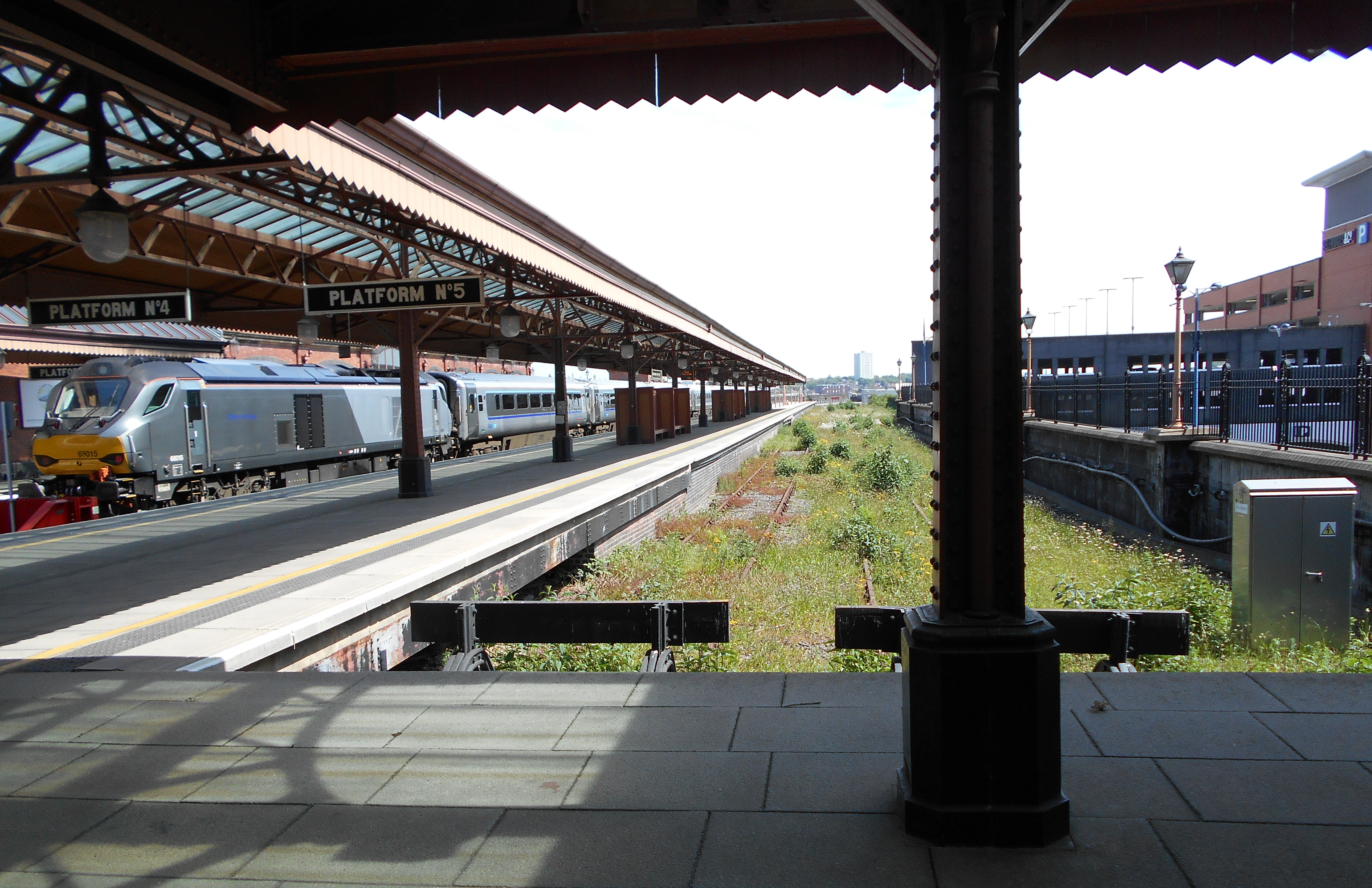 The disused platform five at Birmingham Moor street station, if current plans come to fruition, then at some point this may be brought back into use, along with a brand new platform to its right side.